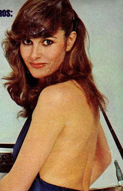 Marita Ballesteros- actriz argentina